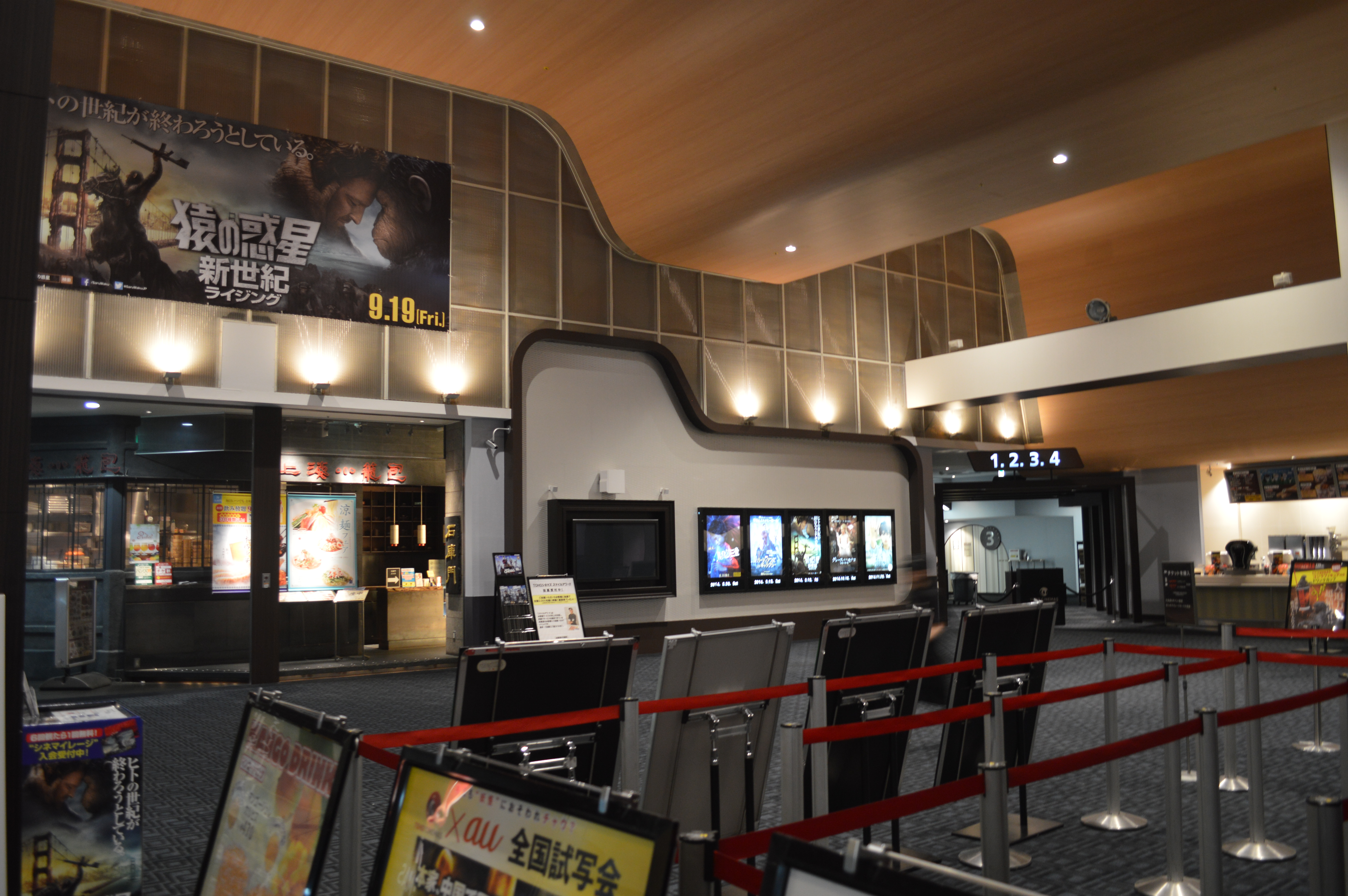 TOHOシネマズ川崎